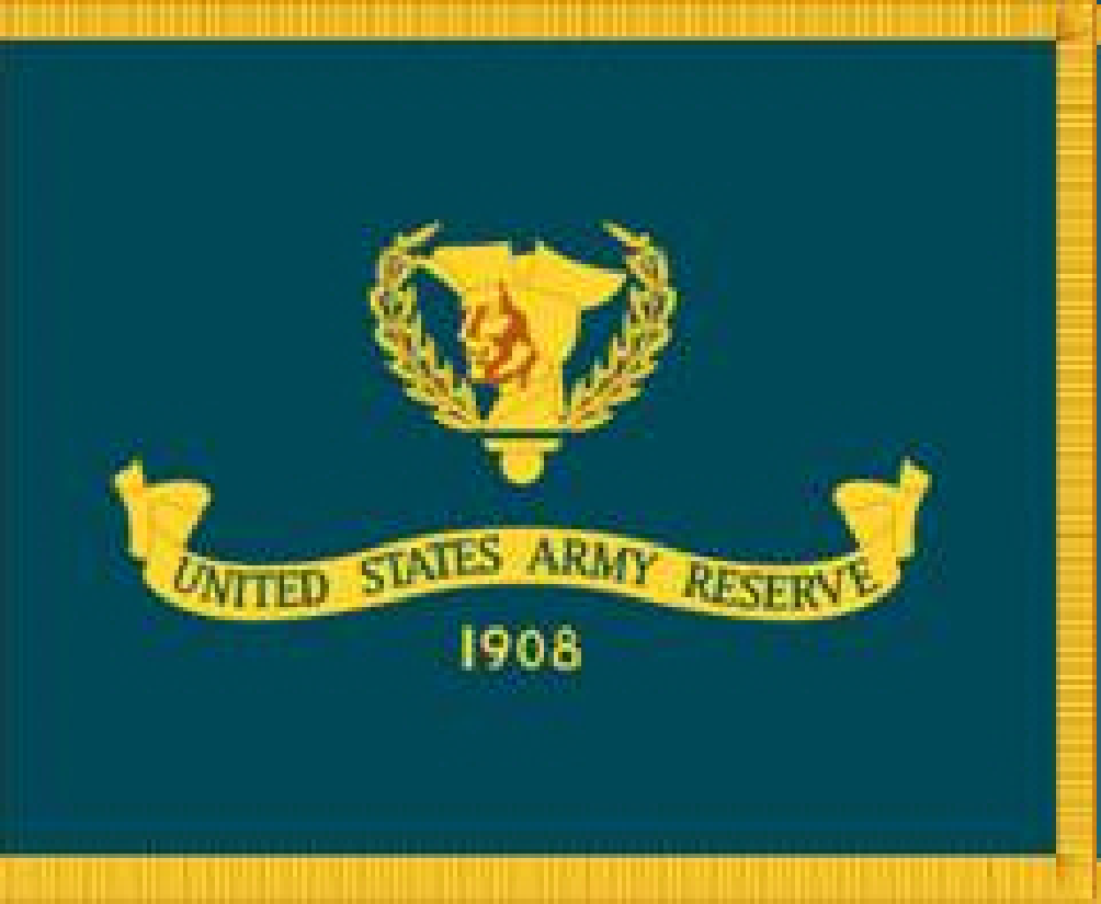 Chief, US Army Reserve Flag